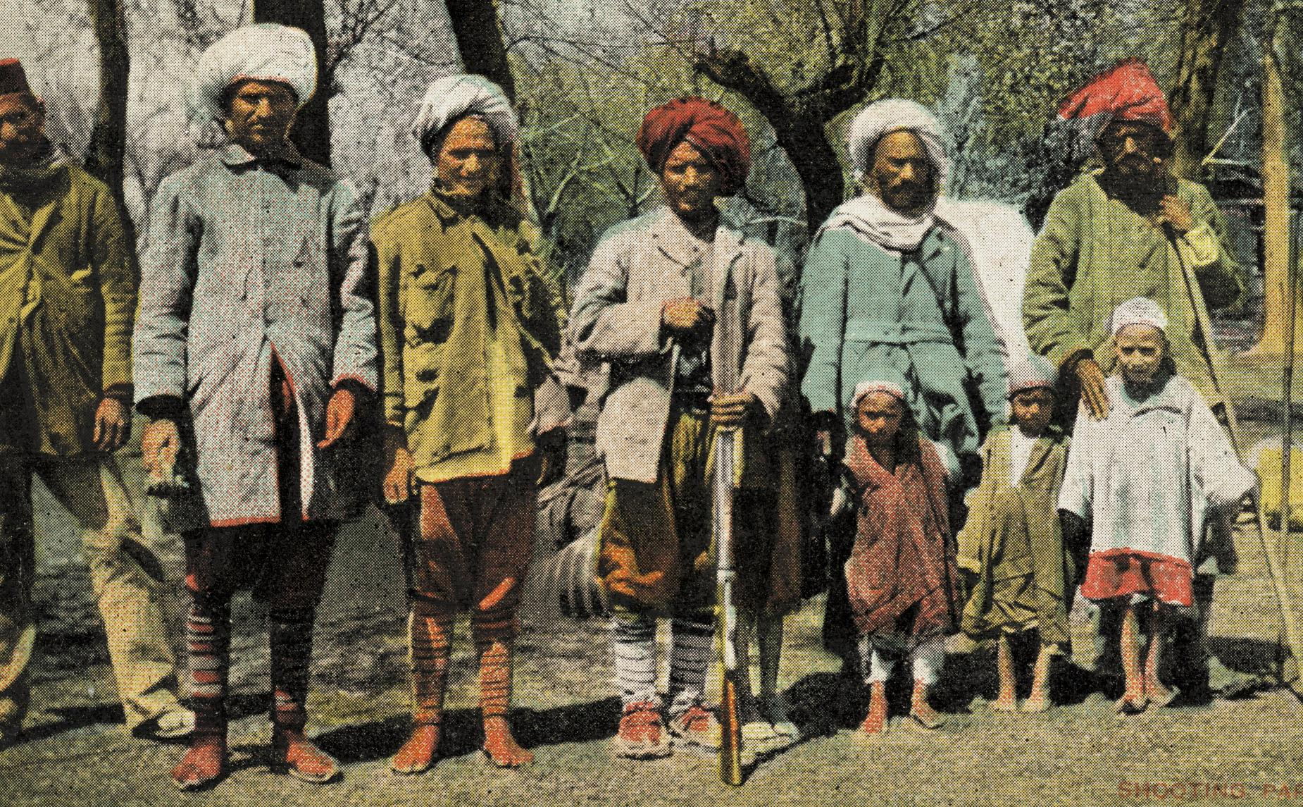 Kashmiri people in Kashmir (not in India) posing for a shooting party.